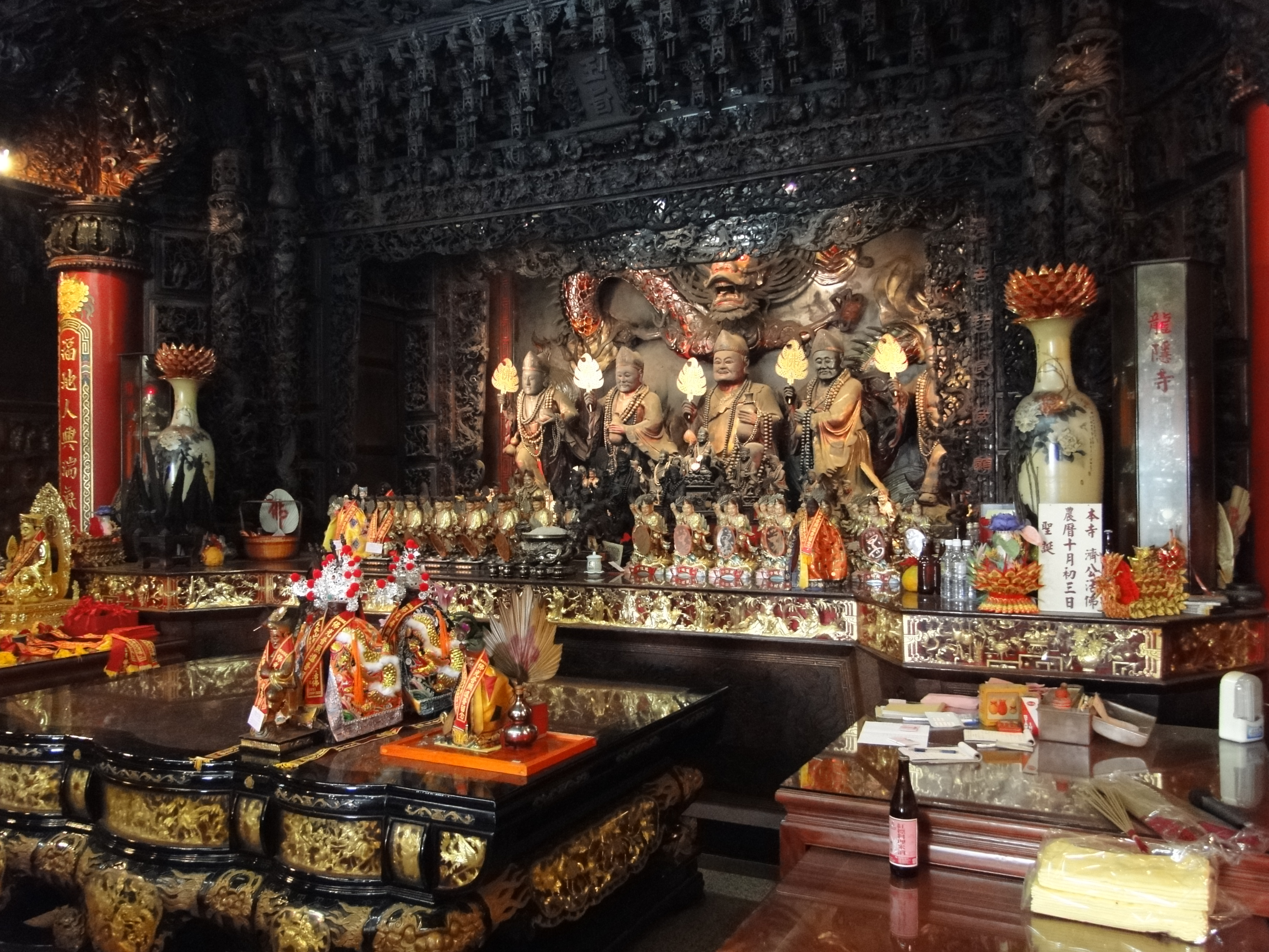 Statues in Longyin Temple, Chukou, Taiwan